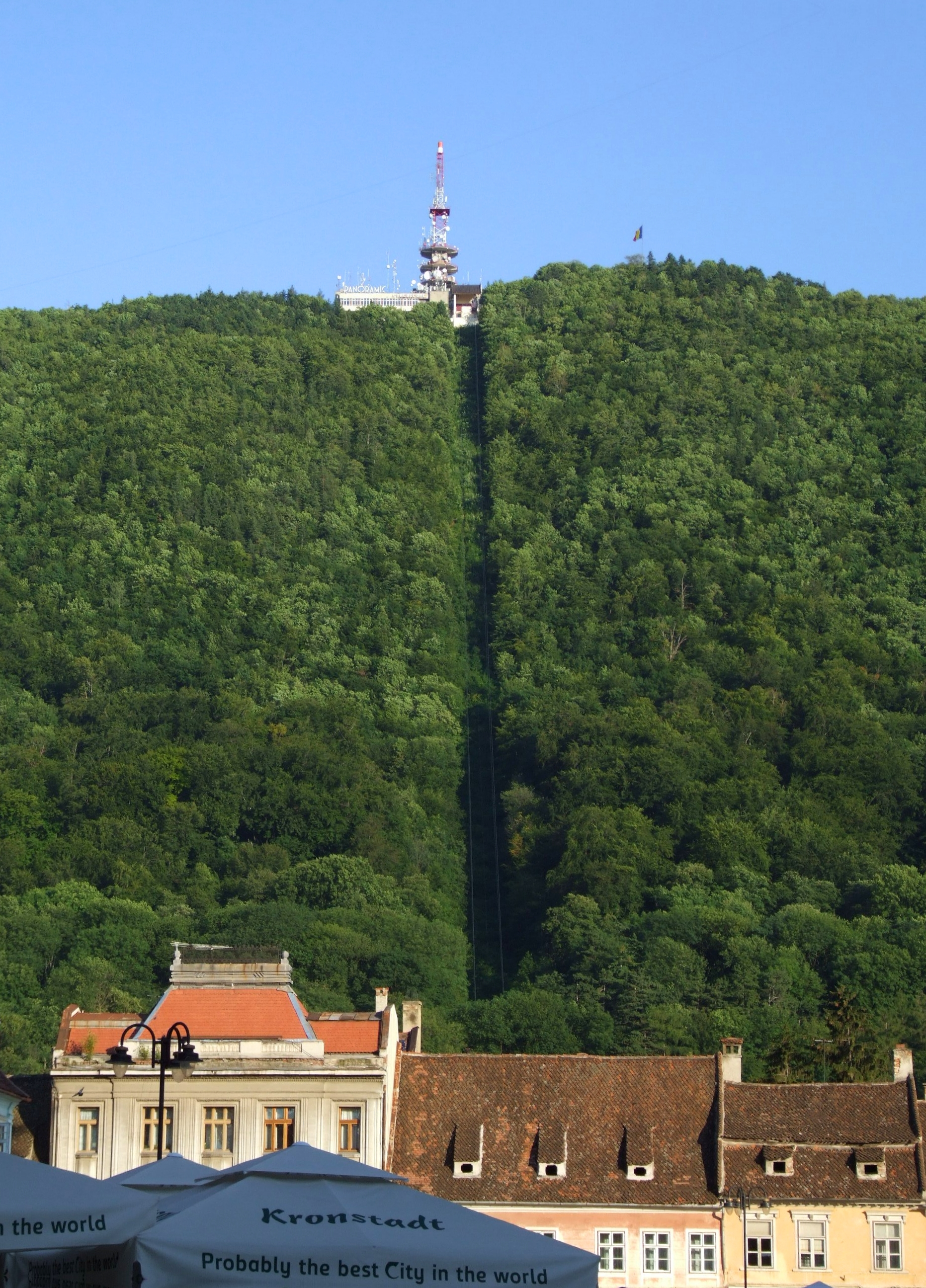 The Cable car from the Tâmpa mountain in Braşov (Kronstadt), Romania